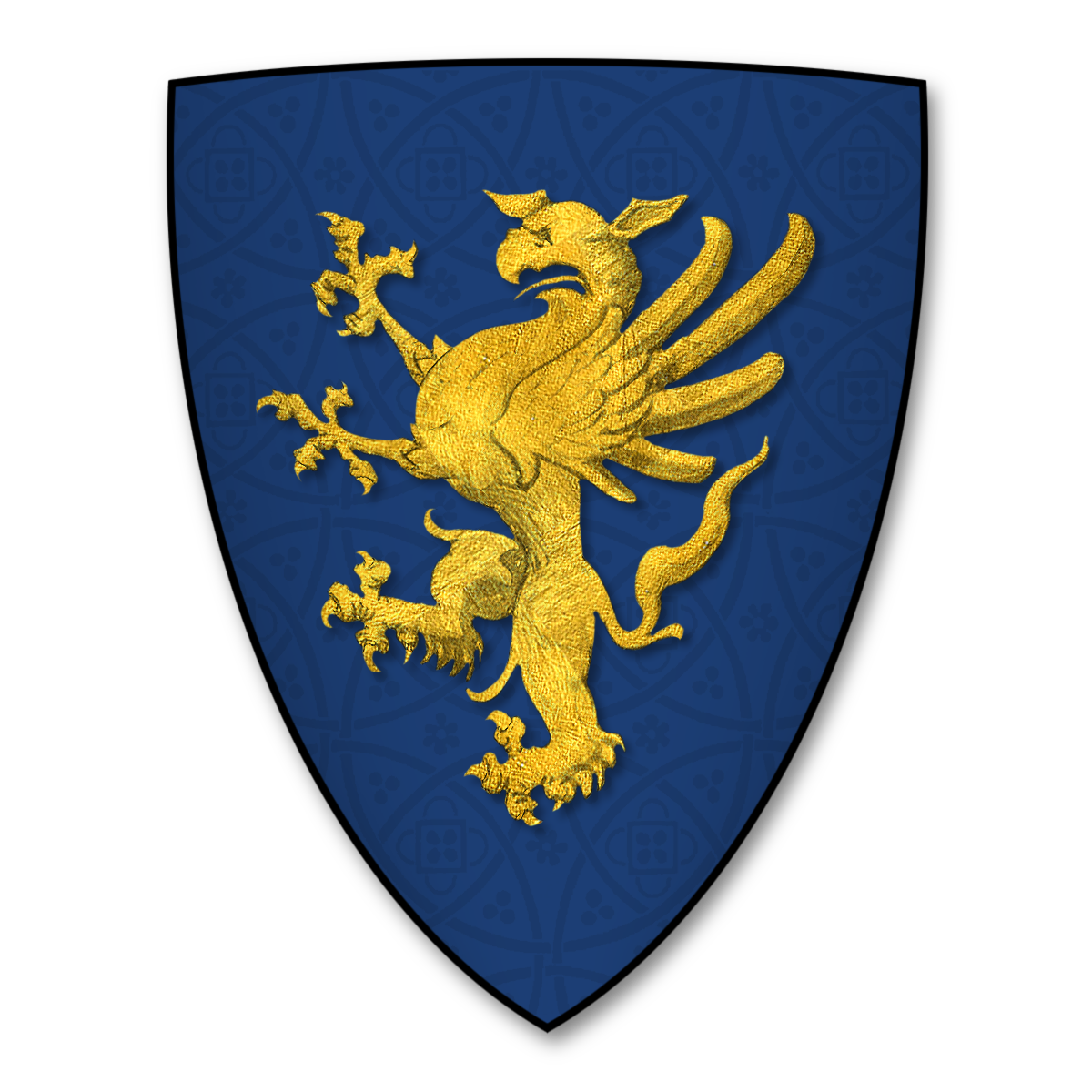 Coat of arms of Simon de Montagu, as blazoned in the Caerlaverock Poem (K-065: "Symon de Montagu") "De inde au grifoun rampant de or fin," Arms: Azure, a griffin segreant Or.